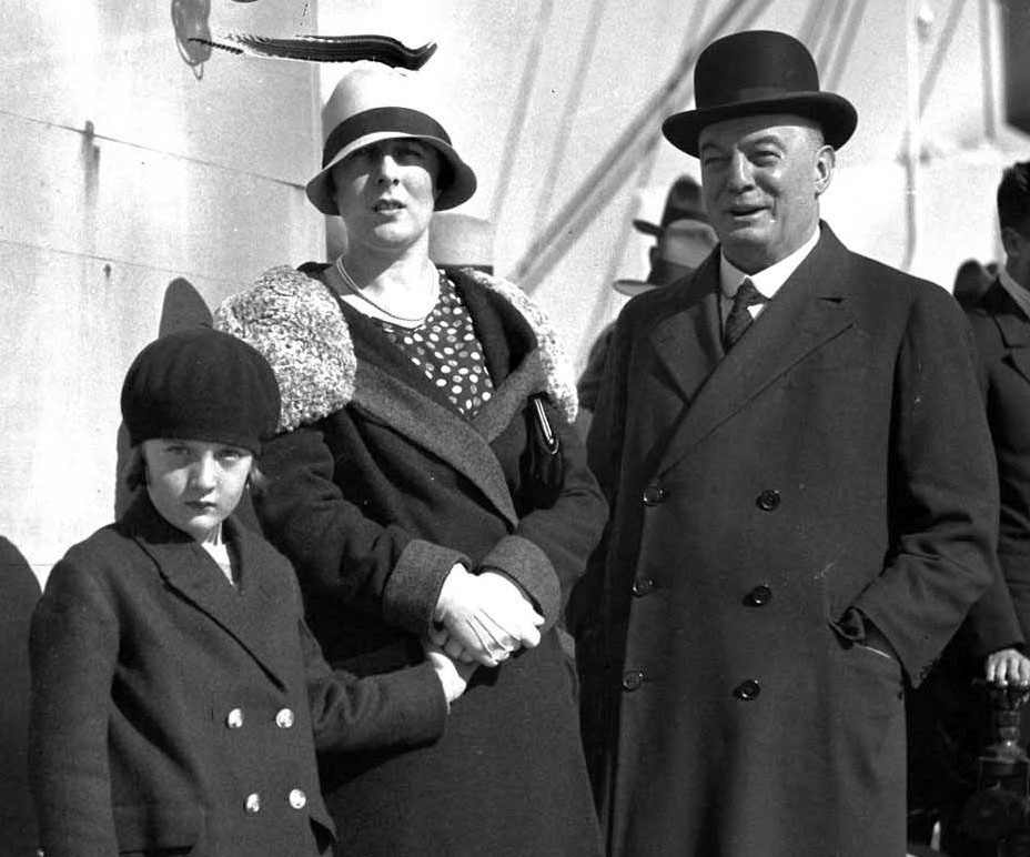 This photograph depicts a family of three at a Movietone event board SS SIERRA. The photograph was taken in August 1929 at Circular Quay during the welcoming and celebrations of the arrival of Australia's first Movietone News truck. This photo is part of the Australian National Maritime Museum’s Samuel J. Hood Studio collection. Sam Hood (1872-1953) was a Sydney photographer with a passion for ships. His 60-year career spanned the romantic age of sail and two world wars. The photos in the collection were taken mainly in Sydney and Newcastle during the first half of the 20th century. The ANMM undertakes research and accepts public comments that enhance the information we hold about images in our collection. This record has been updated accordingly. Photographer: Samuel J. Hood Studio Collection Object no. 00034651